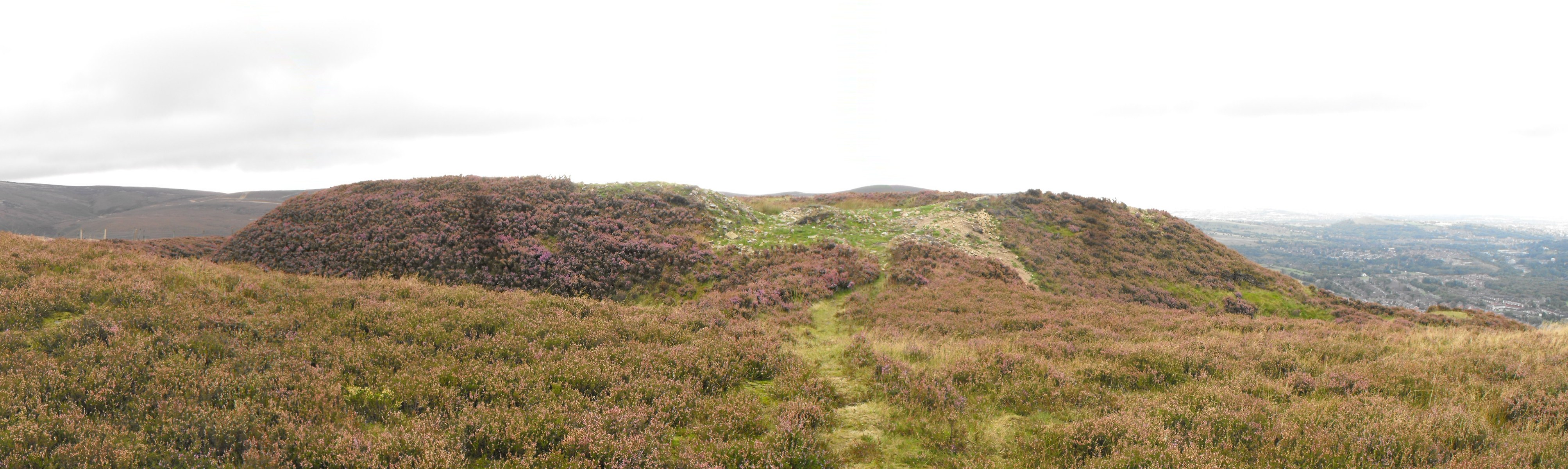 The causeway leading to the entrance of Buckton Castle